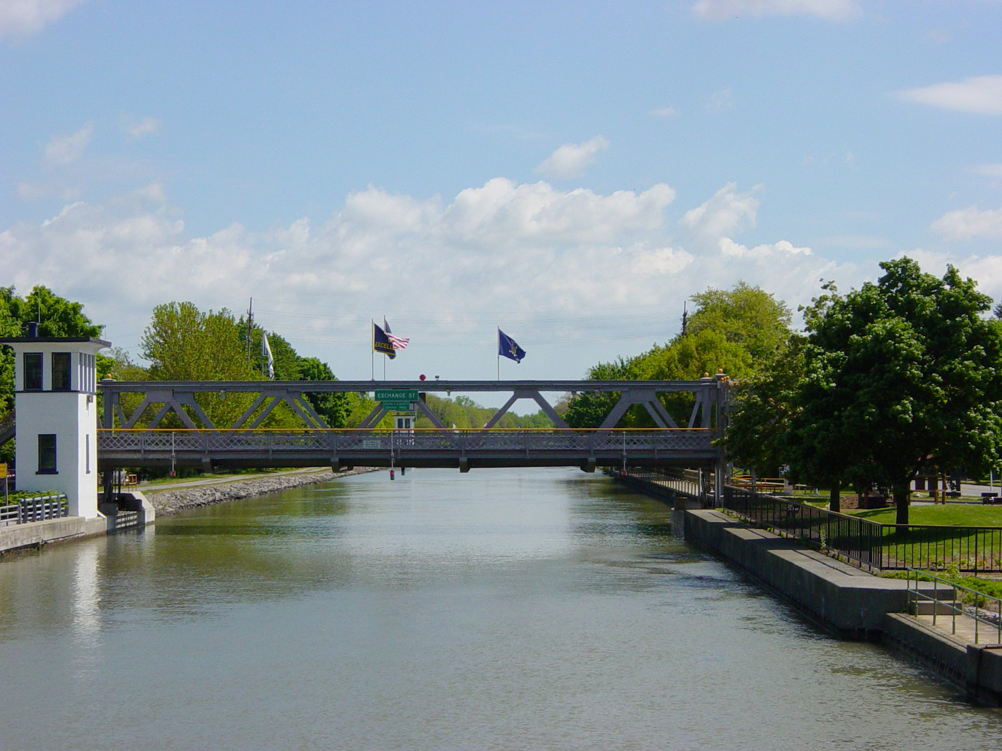 Exchange street lift bridge over the Erie Canal. This and the next bridge downstream are controlled by the same operator, who drives down to open it. Image by User:Leonard G., taken June 30, 2005 from a canal excursion boat. Image 2 of 3: .